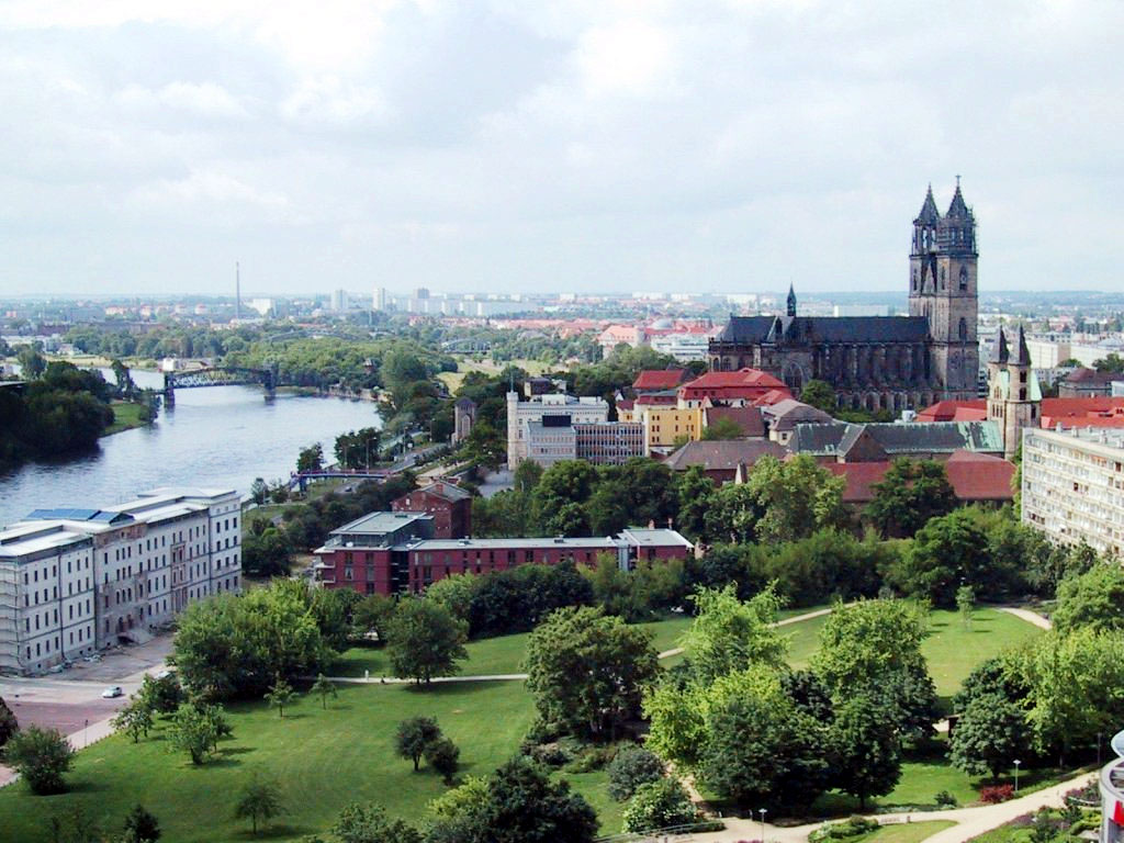 View of Magdeburg, Germany, from the tower of the Johanniskirche, showing the Cathedral of Magdeburg